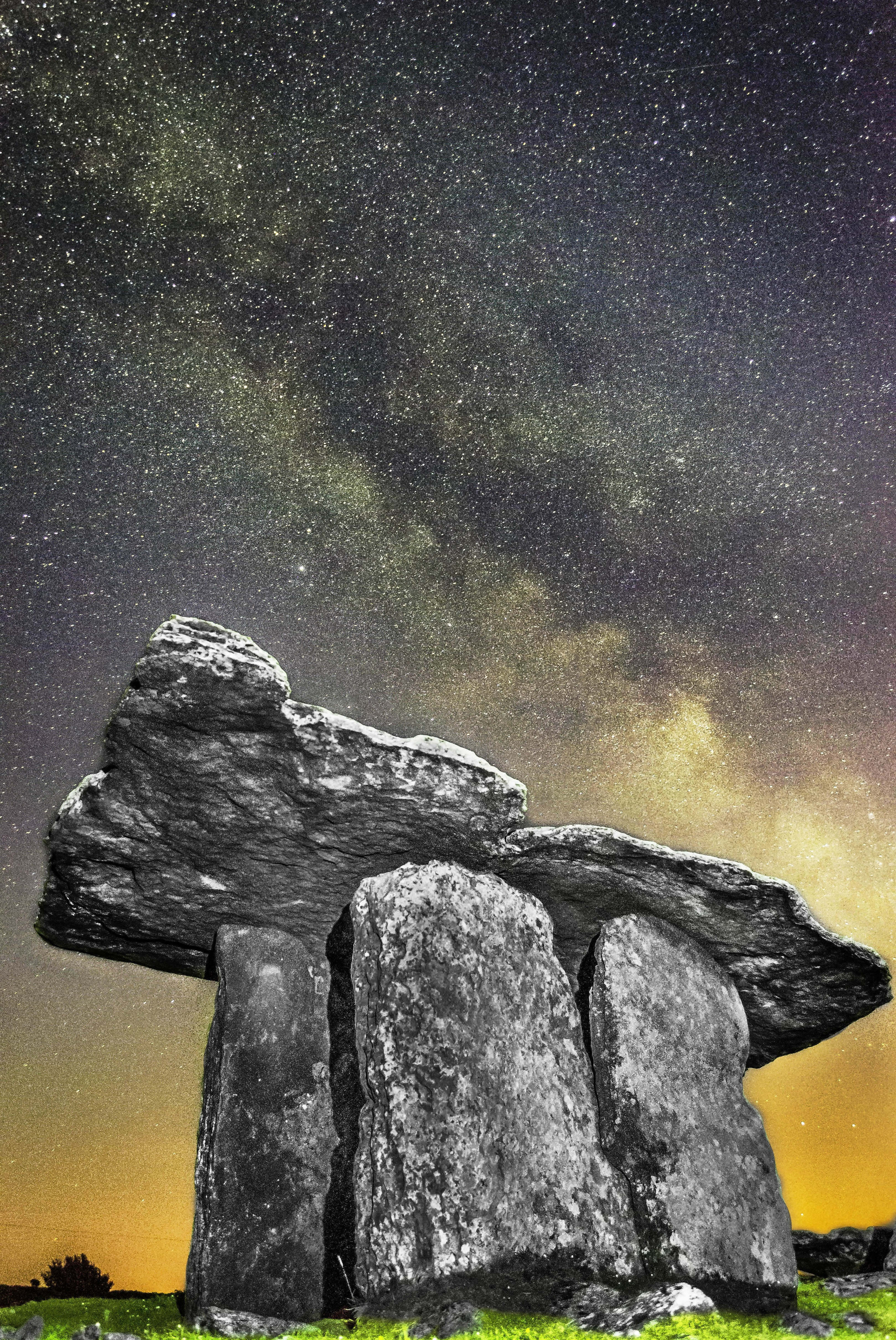 Poulnabrone Portal Tomb